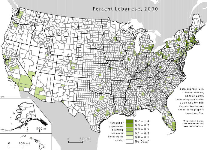 Diagram indicating Lebanese American settlement in the United States. Image as based on the census 2000 by the U.S. Census Bureau. Badagnani (talk) 07:51, 23 May 2009 (UTC)